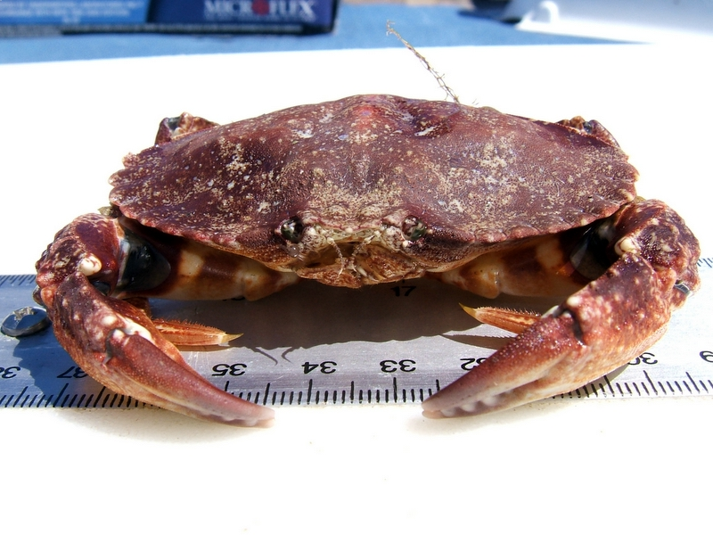 Cancer gracilis caught off the coast of southern California. This picture was taken by Dave Pena